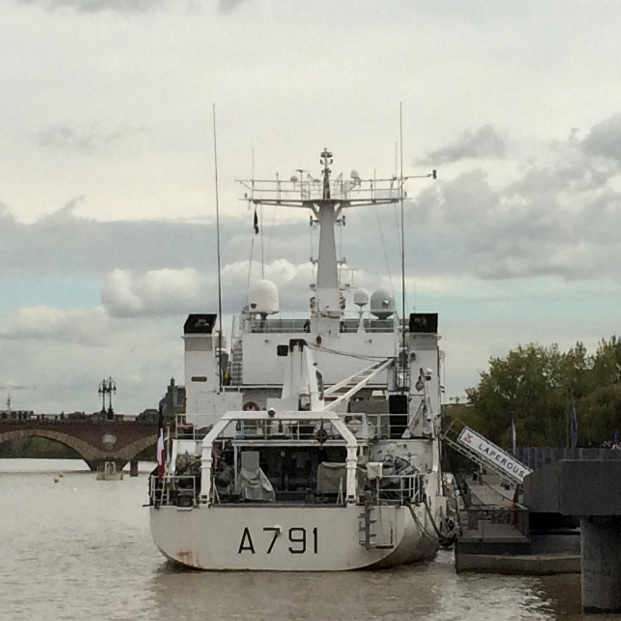 Lapérouse A791, hydrographic vessel of the French Navy, at dock in Bordeaux, France.